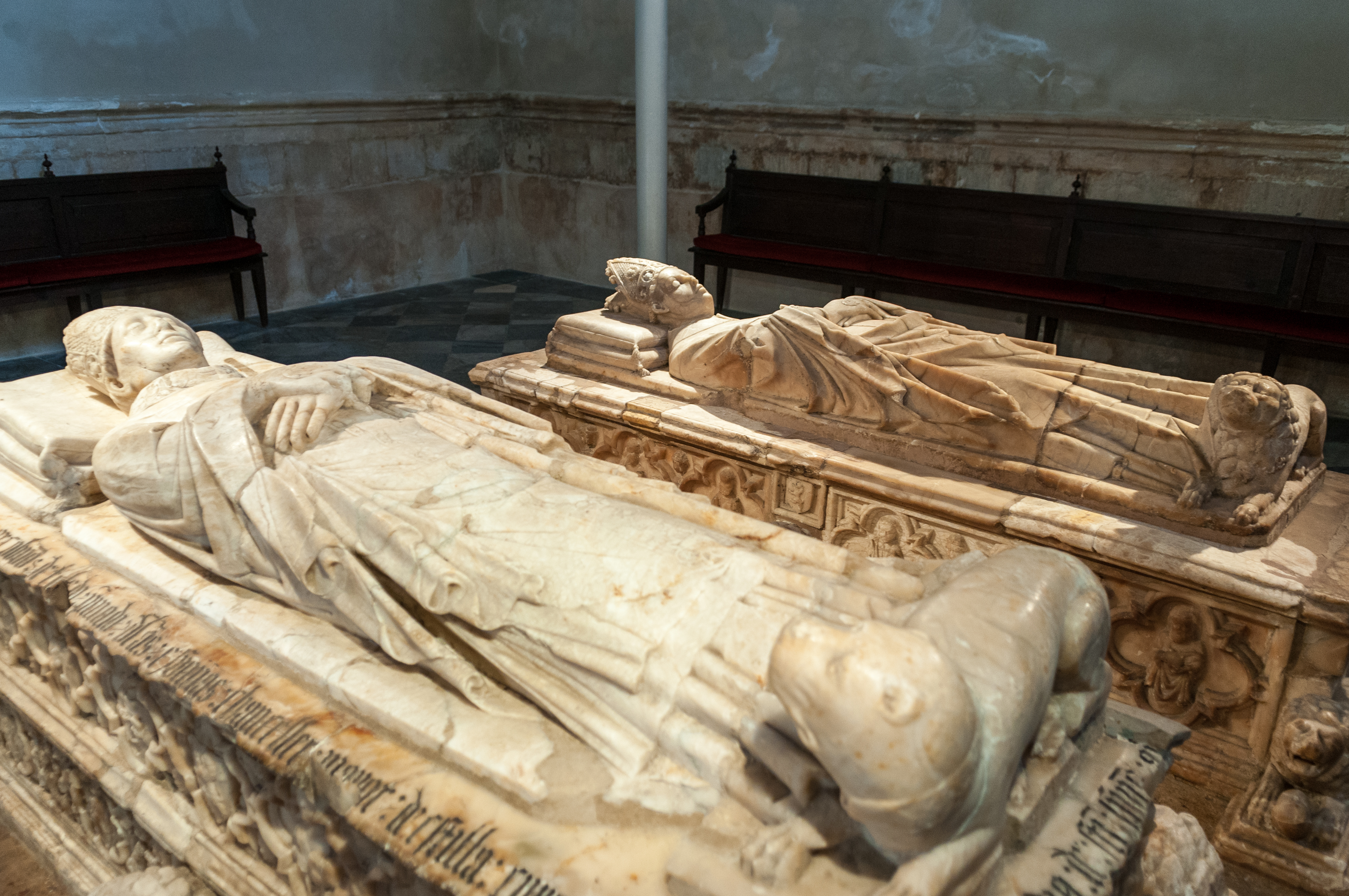 The Primate Cathedral of Saint Mary of Toledo (Spanish: Catedral Primada Santa María de Toledo) is a Roman Catholic cathedral in Toledo, Spain, see of the Metropolitan Archdiocese of Toledo. The cathedral of Toledo is one of the three 13th century High Gothic cathedrals in Spain and is considered, in the opinion of some authorities, to be the magnum opus of the Gothic style in Spain. It was begun in 1226 under the rule of Ferdinand III and the last Gothic contributions were made in the 15th century when, in 1493, the vaults of the central nave were finished during the time of the Catholic Monarchs. It was modeled after the Bourges Cathedral, although its five naves plan is a consequence of the constructors' intention to cover all of the sacred space of the former city mosque with the cathedral, and of the former sahn with the cloister. It also combines some characteristics of the Mudéjar style, mainly in the cloister, and with the presence of multifoiled arches in the triforium. The spectacular incorporation of light and the structural achievements of the ambulatory vaults are some of its more remarkable aspects. It is built with white limestone from the quarries of Olihuelas, near Toledo. It is popularly known as Dives Toletana (meaning The Rich Toledan in Latin) Cathedral of Toledo. (2012, March 12). In Wikipedia, The Free Encyclopedia. Retrieved 09:46, April 15, 2012, from